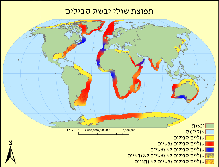 Global distribution of passive margins - Hebrew. Based on file:Globald.png.